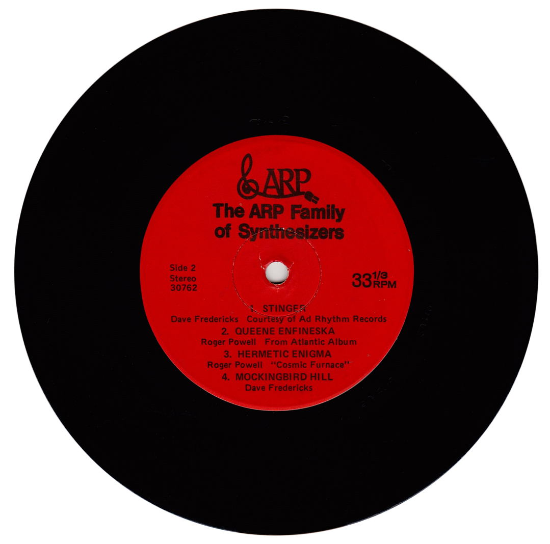 Demonstration EP with an ARP Synthesizer